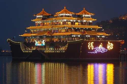 Zhuhai ship seafood restaurant at night Zhuhai, Guangdong Province, China 2006 I took the pitcture.